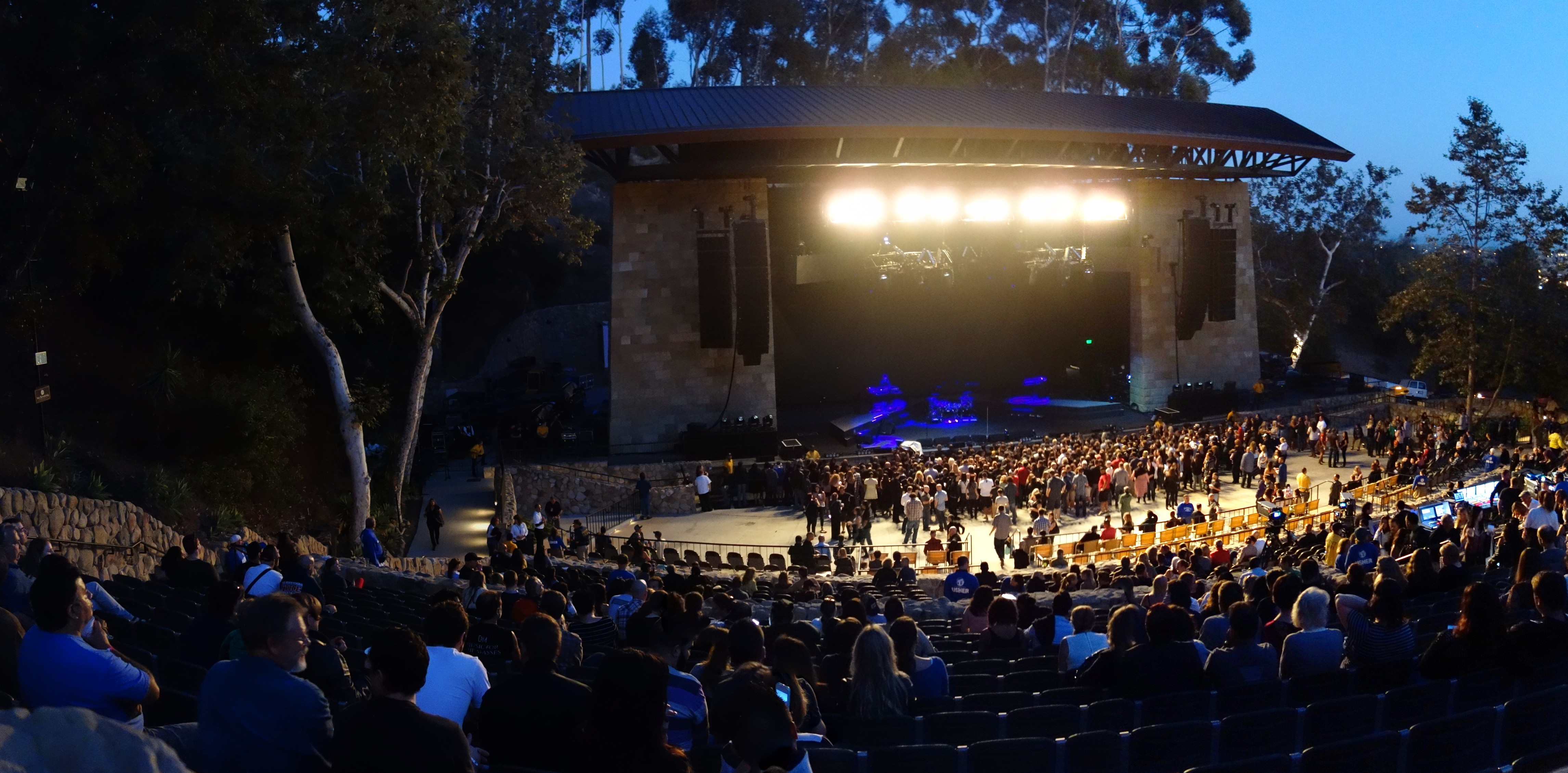 The Santa Barbara Bowl before a Depeche Mode concert in September 2013.